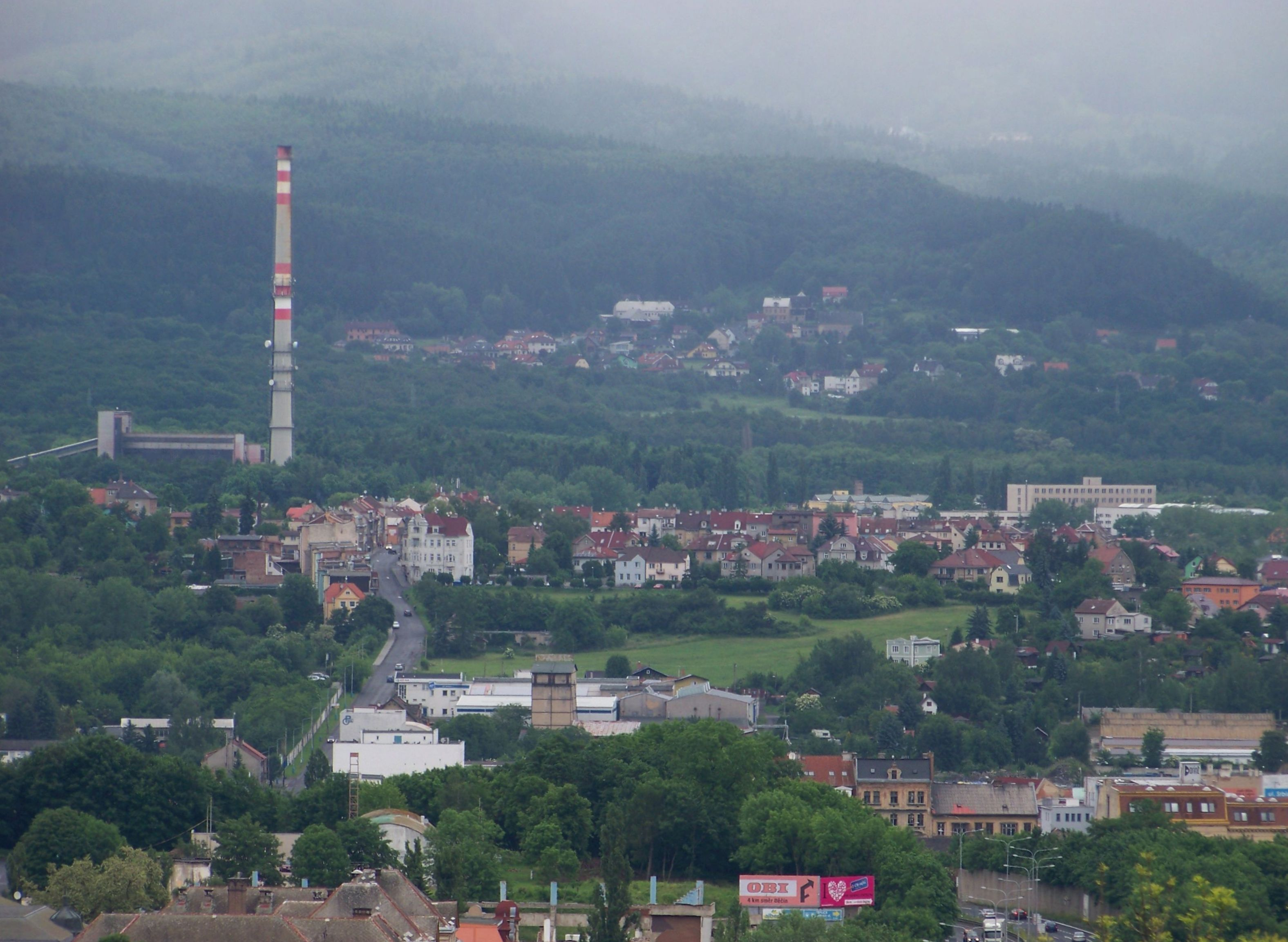 Teplice, Teplice District, Ústí nad Labem Region, Czech Republic. A view of Novosedlice and Přítkov from Nová cesta street.